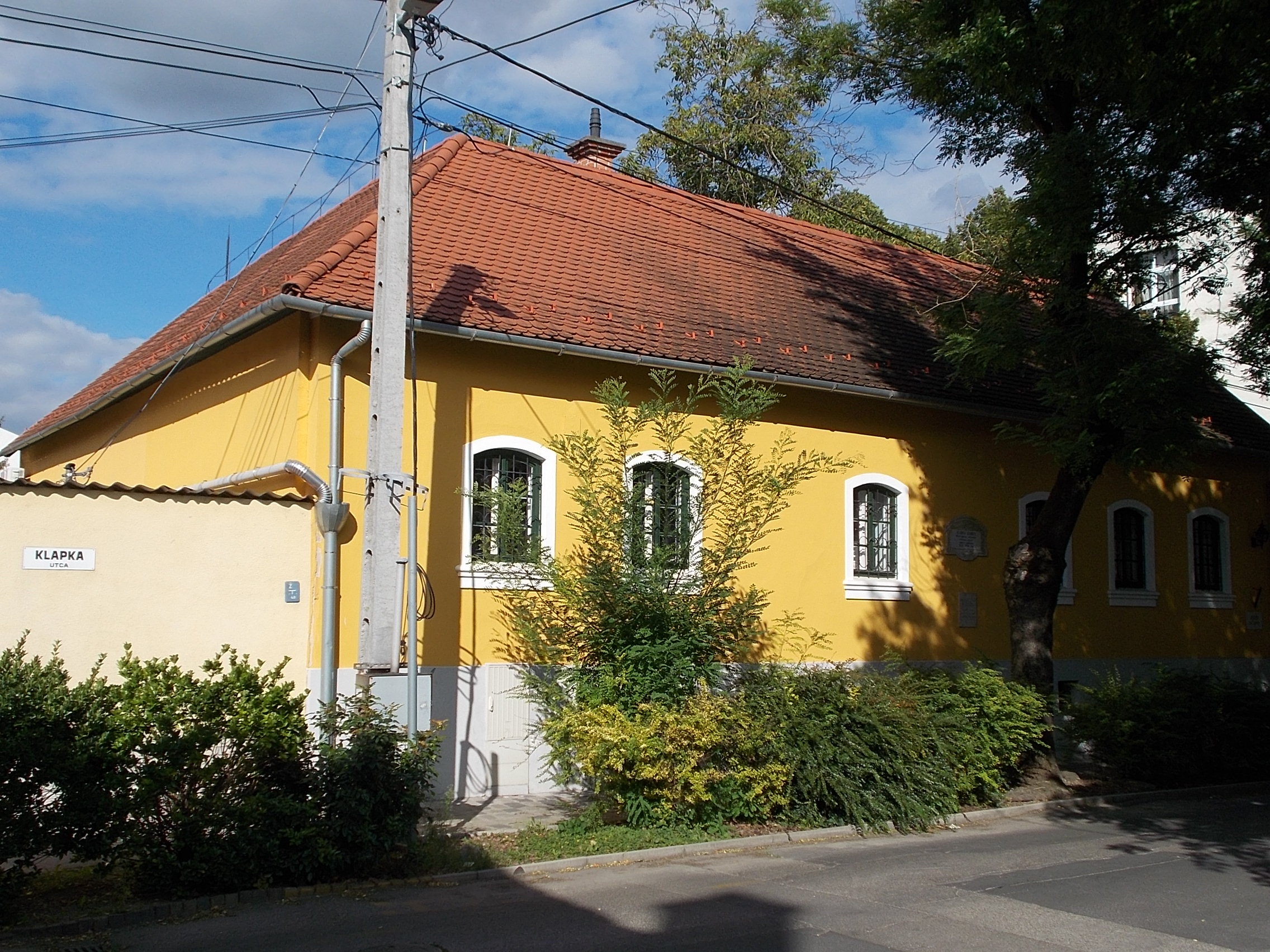 Klapka house. Bozsó Collection. - Klapka Street, Rákócziváros, Kecskemét, Bács-Kiskun County, Hungary.